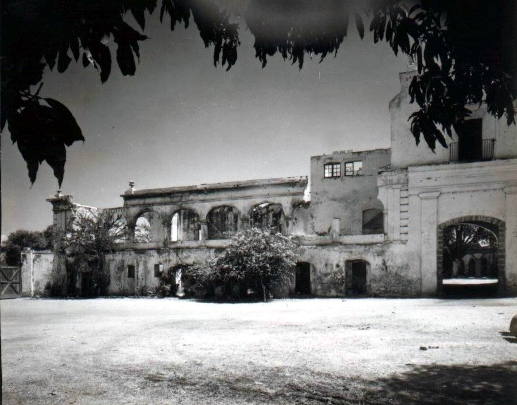 El caso de la Hacienda de Cocoyoc